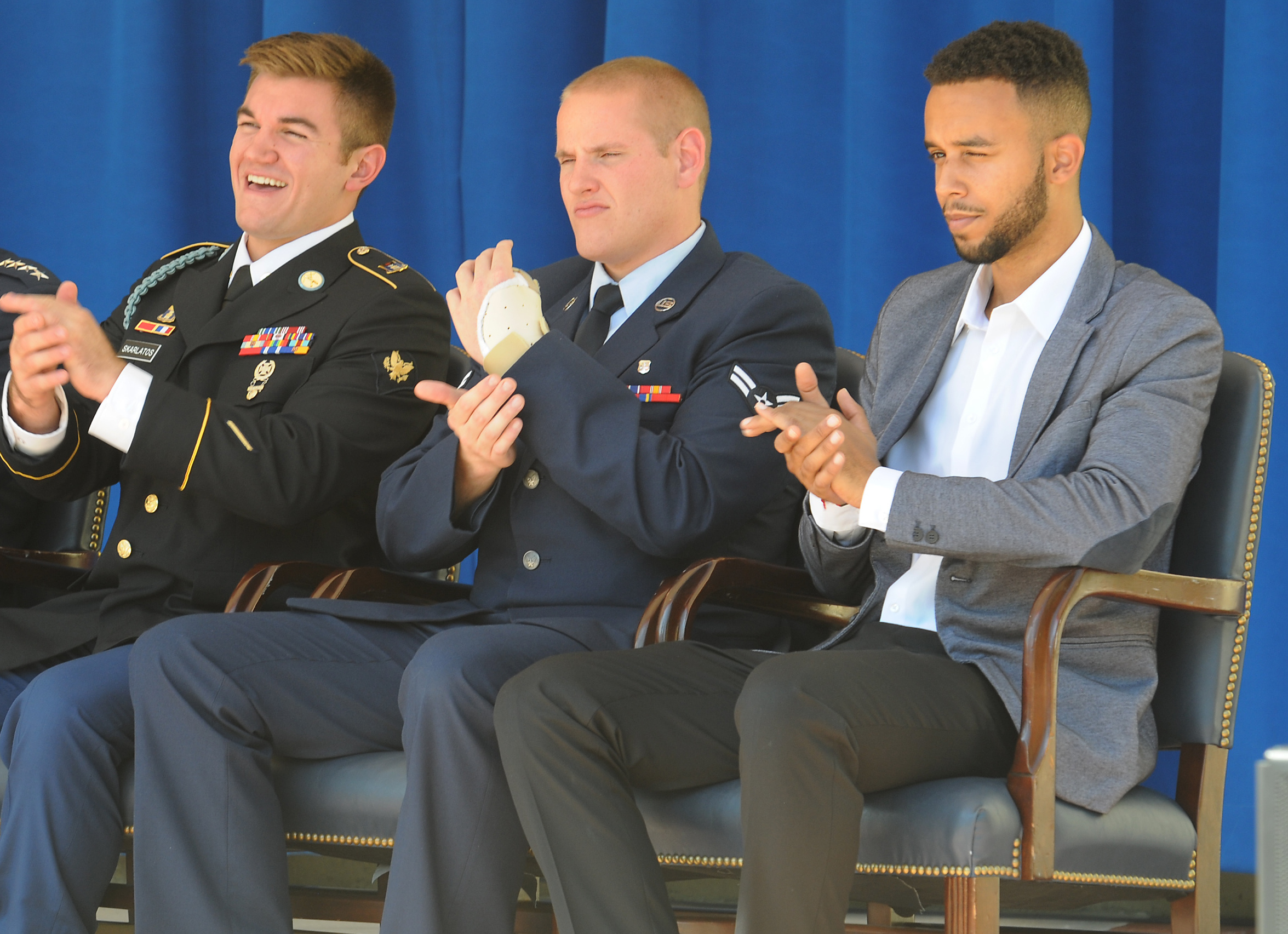 Defense Secretary Ash Carter awards the Soldier's Medal to Spc. Alek Skarlatos, Oregon National Guard, the Airman's Medal to Airman 1st Class Spencer Stone and the Defense Department Medal for Valor to Anthony Sadler, at a ceremony in the Pentagon courtyard Sept. 17, 2015. (U.S. Army National Guard photo by Staff Sgt. Michelle Gonzalez)(Released)